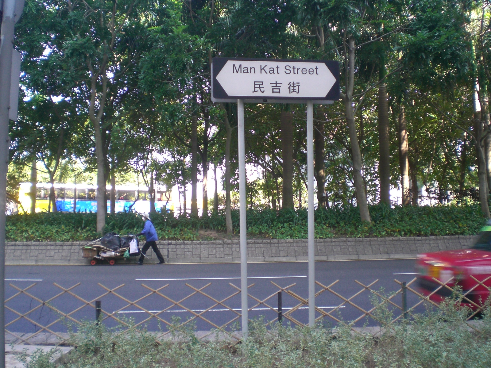 近中環碼頭的中環民吉街, Man Kat Street, Central, Hong Kong